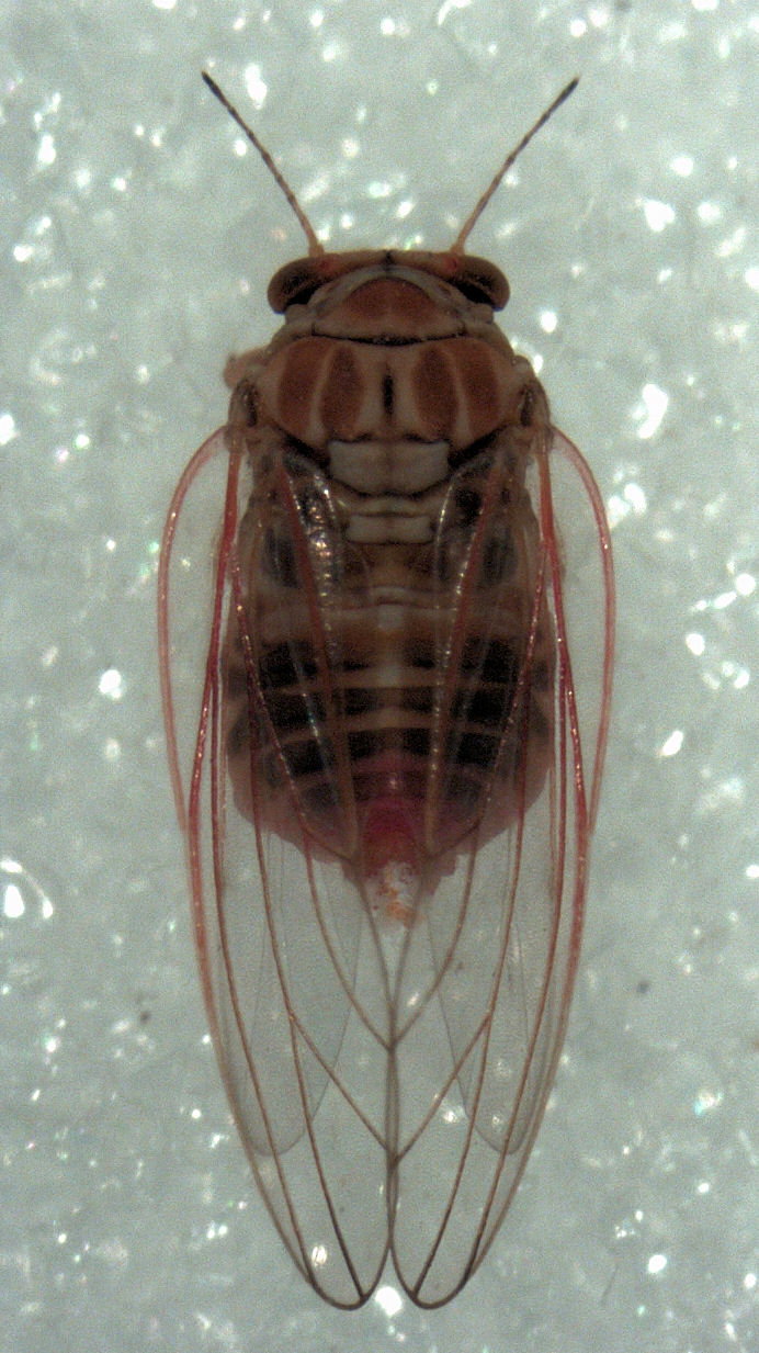 adult Cardiaspina fiscella